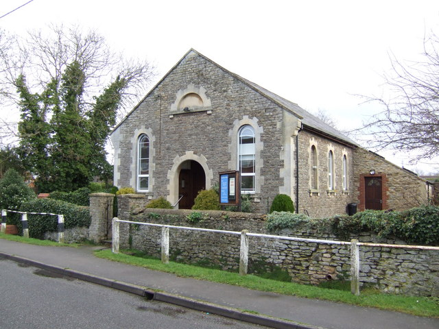 Hanney Chapel, Main Street, East Hanney, Oxfordshire (fornmerly Berkshire)